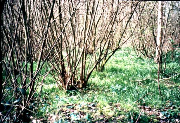 Coppiced woodland, Hockley Woods, Essex.